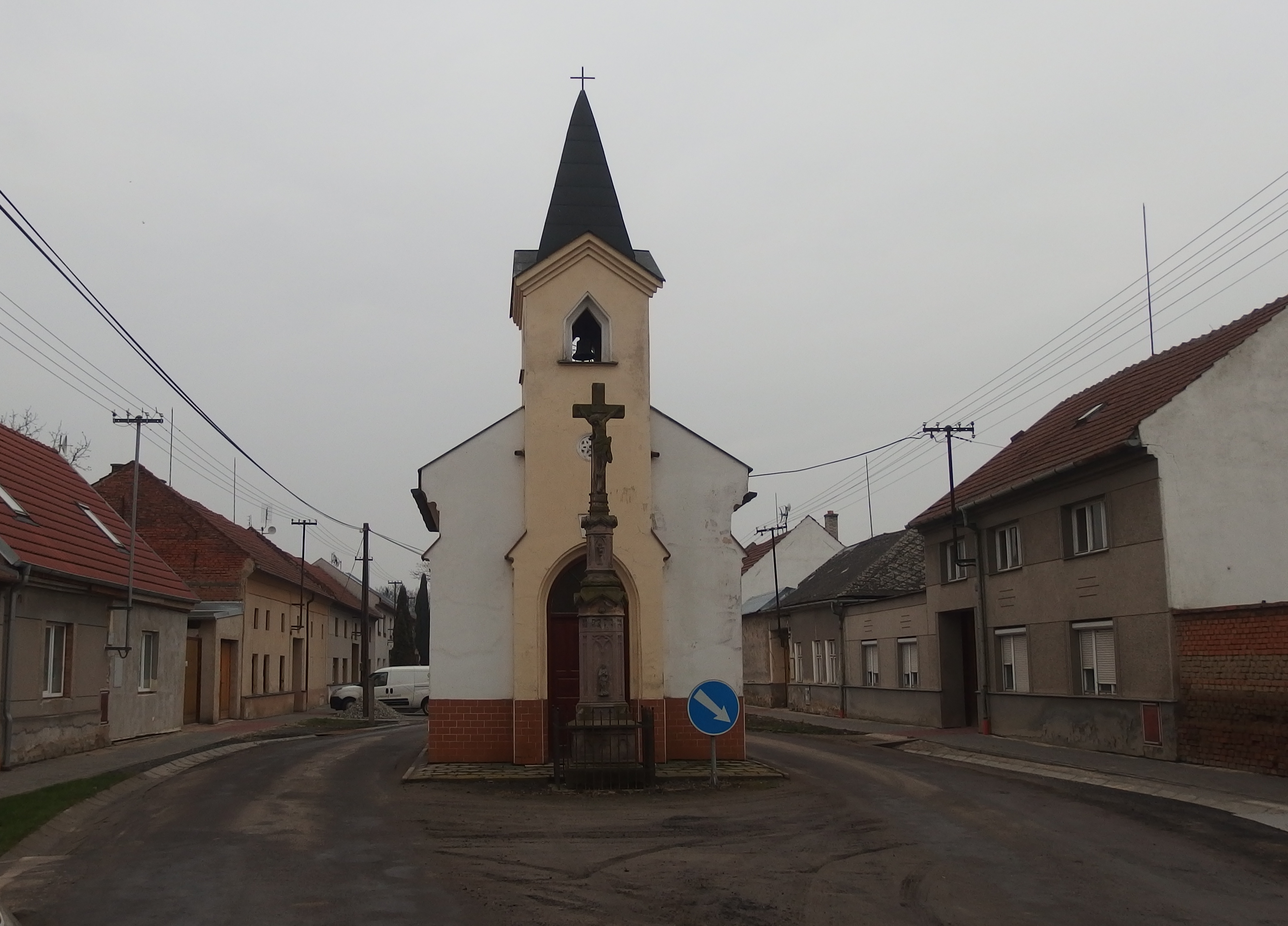 Hrubčice, Prostějov District, Czech Republic, part Otonovice.